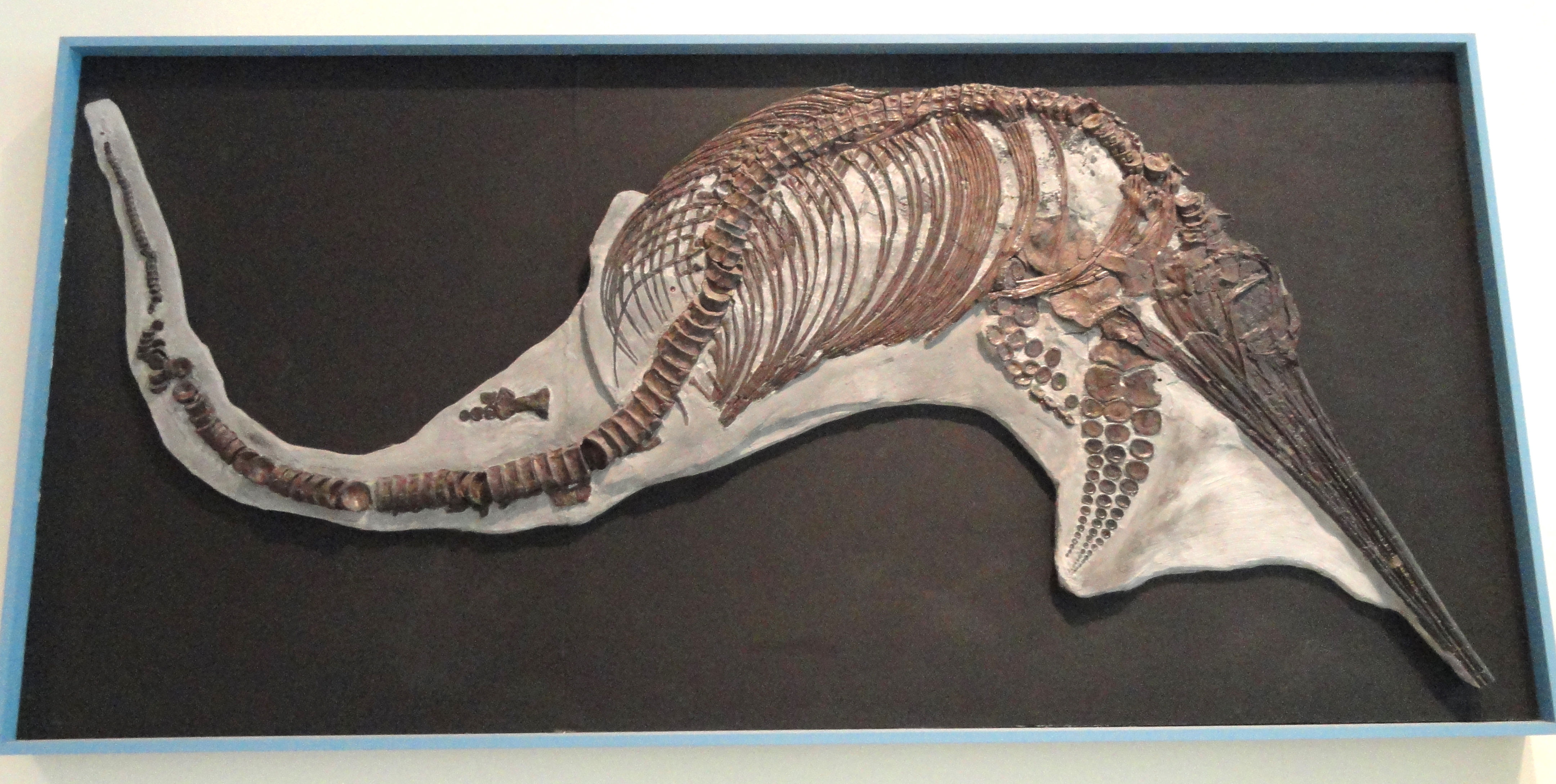 Exhibit in the Royal Ontario Museum, Toronto, Ontario, Canada. This exhibit is old enough so that it is in the public domain, and photography was permitted in the museum. I took this photograph and release it into the public domain.